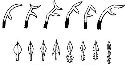 Weapons of the Tibbu Rešāde.